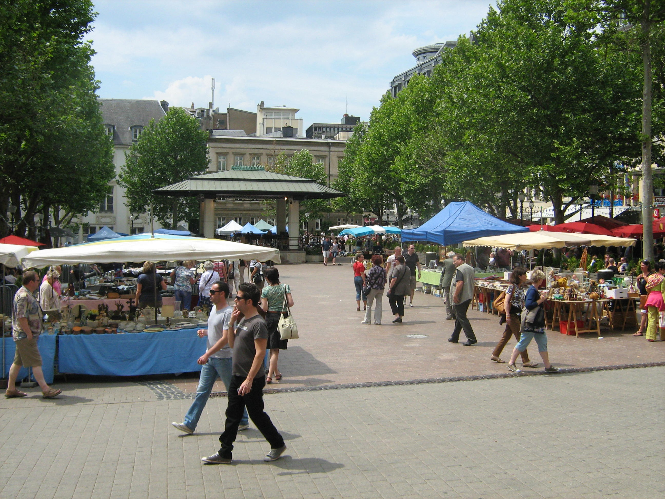 Place d'Armes, Luxembourg. A summer flea market on the square.